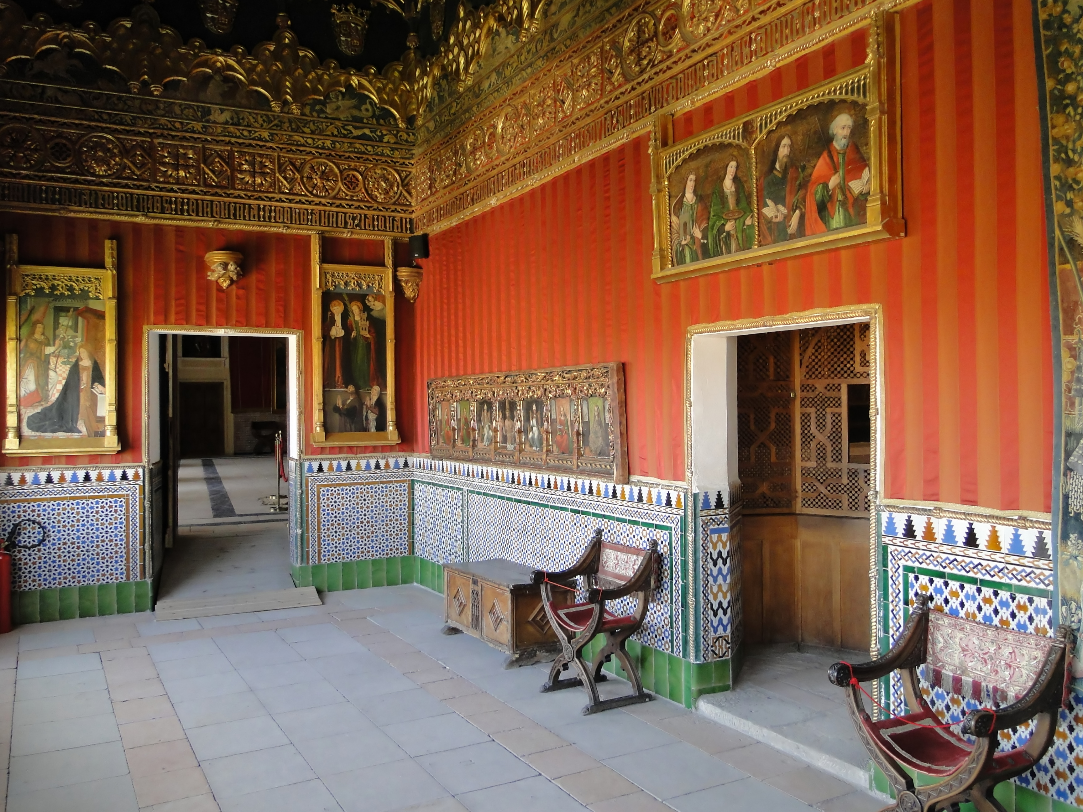 Belt Room of the Alcázar of Segovia, Spain